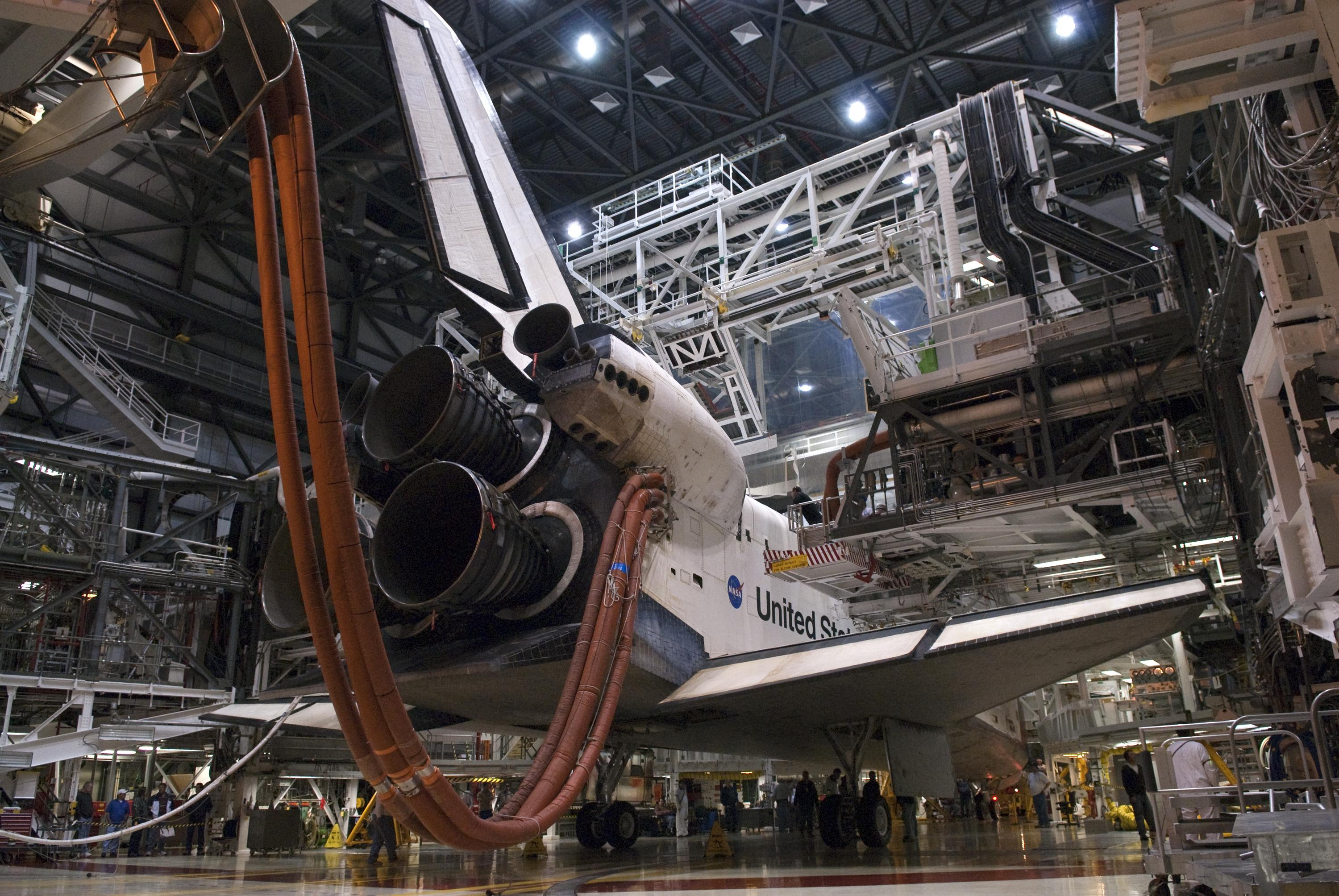 At NASA's Kennedy Space Center in Florida, work platforms are moved into position around space shuttle Endeavour in Orbiter Processing Facility-2, following its touchdown at the completion of the STS-130 mission to the International Space Station. Processing now begins for Endeavour's next flight, STS-134. The six-member STS-134 crew will deliver the ExPRESS Logistics Carrier 3 and the Alpha Magnetic Spectrometer to the International Space Station, as well as a variety of spare parts including two S-band communications antennas, a high-pressure gas tank, additional spare parts for Dextre and micro-meteoroid debris shields. STS-134 will be the 35th shuttle mission to the station and the 133rd flight in the shuttle program.